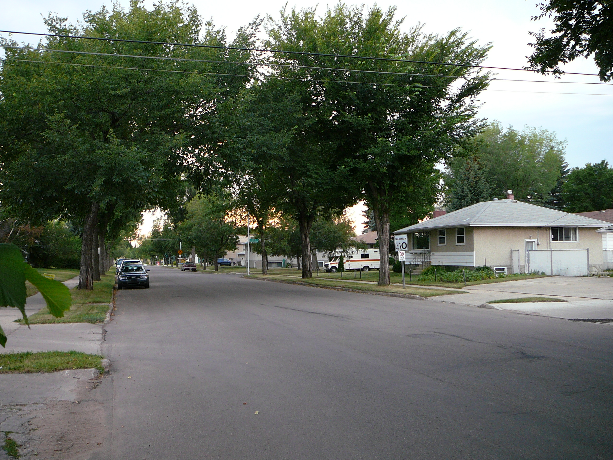 Dovercourt Avenue in Edmonton, Canada. Facing west toward 134 Street NW and the north side of Dovercourt Avenue.